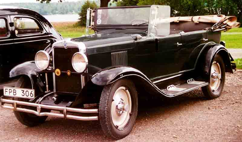 1929 Chevrolet International Model AC Phaeton